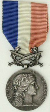 Honour medal of Foreign Affairs for acts of courage and devotion to foreign military personnel, 1917 variant.